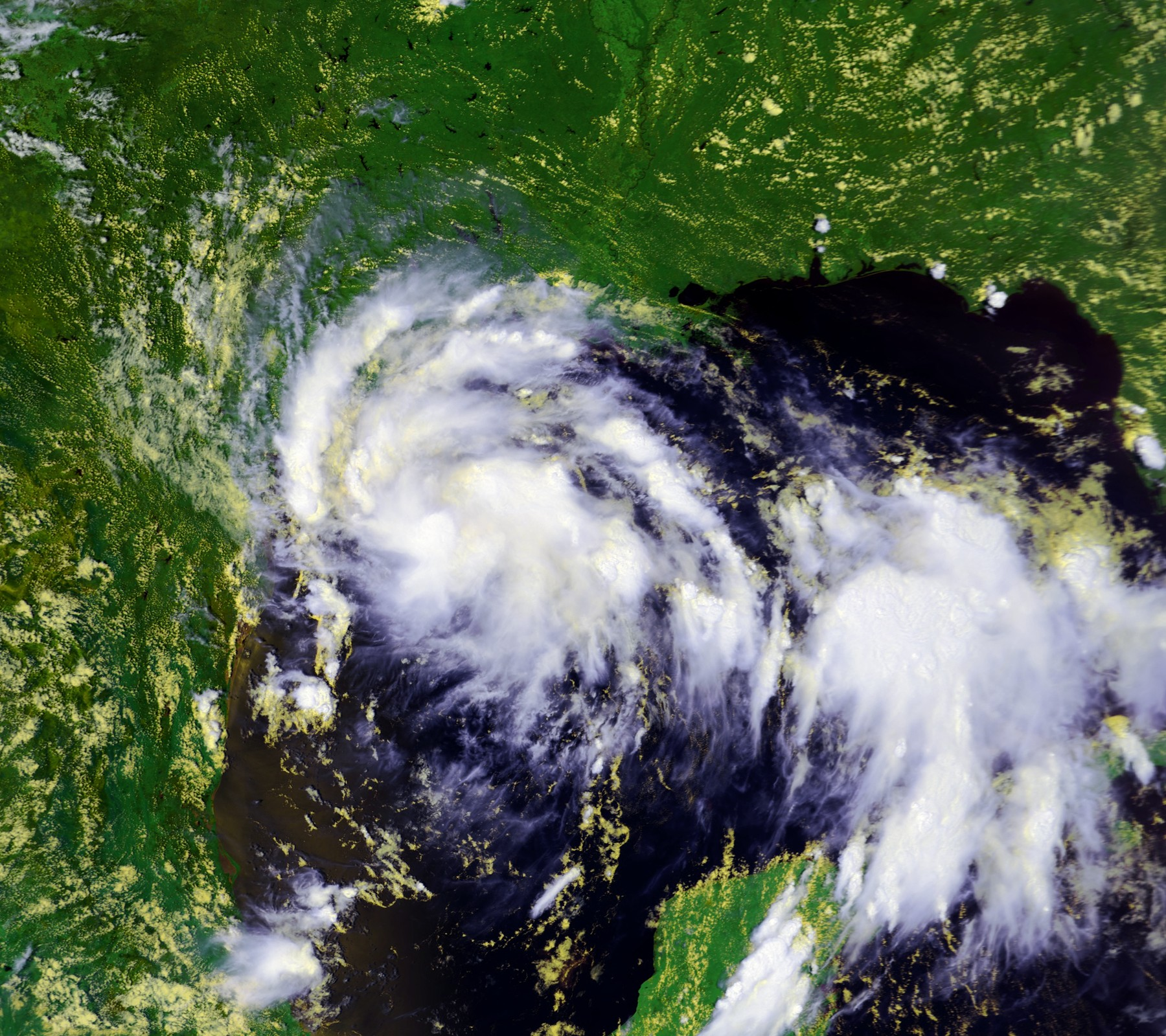 Tropical Storm Erin on August 15 at approximately 1939 UTC. This image was produced from data from NOAA-18, provided by NOAA.